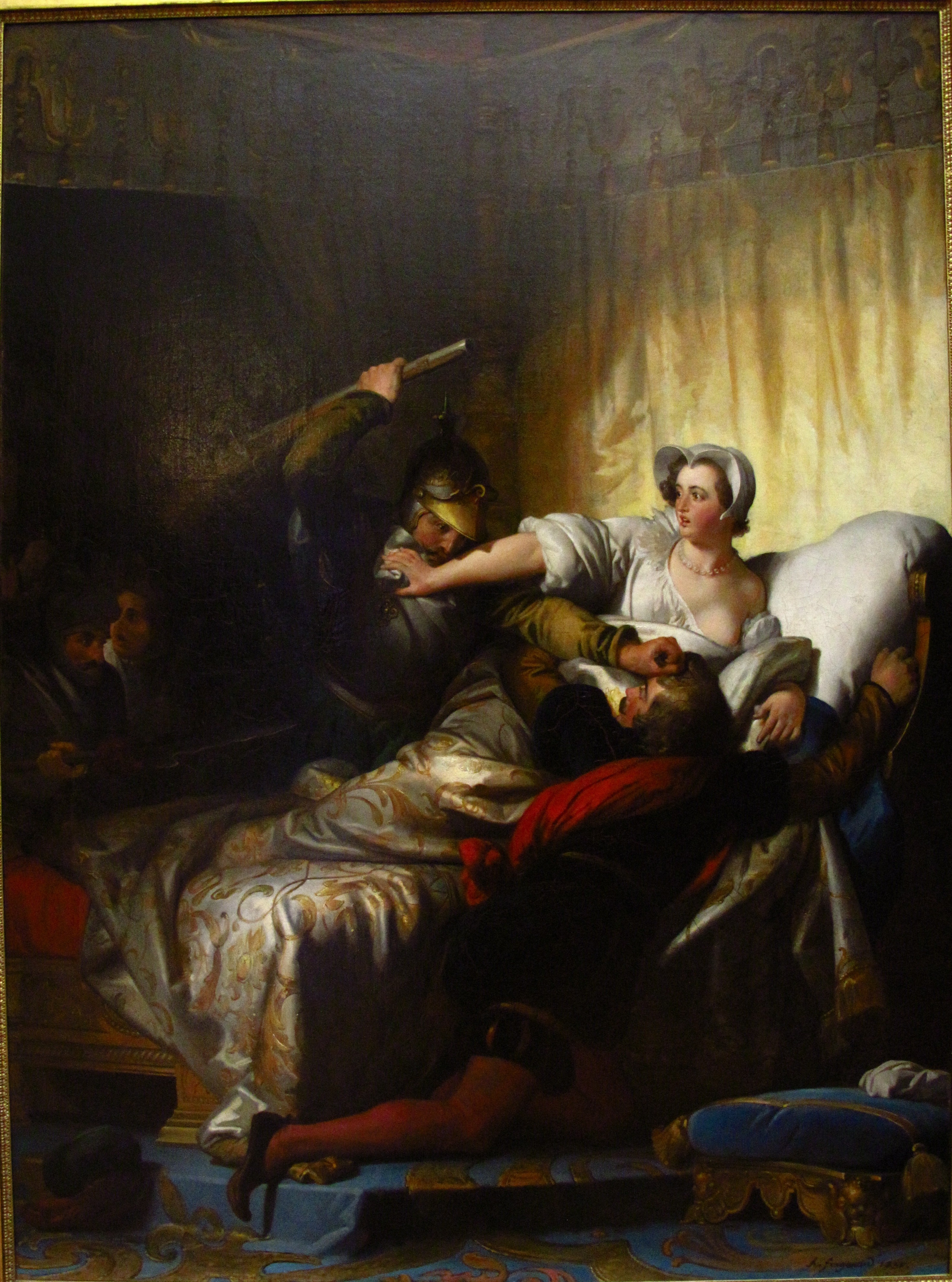 Scene in the bedroom of Marguerite de Valois during the St. Bartholomew's Day massacre.